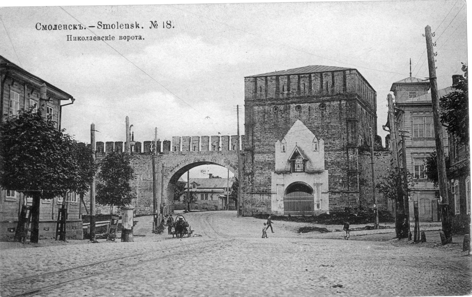 Nikolsky gate of the Smolensk fortress wall.